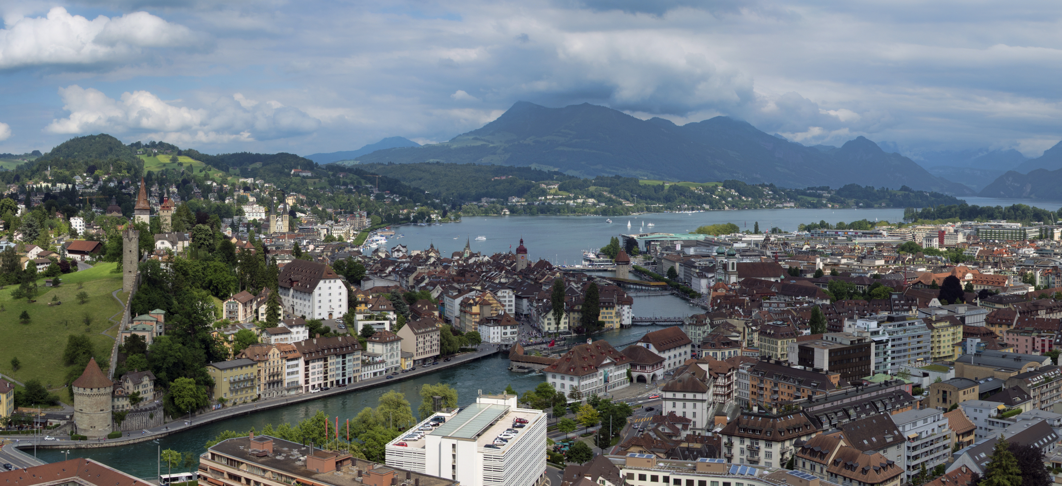 lucerne luzern switzerland panorama gutsch 2012